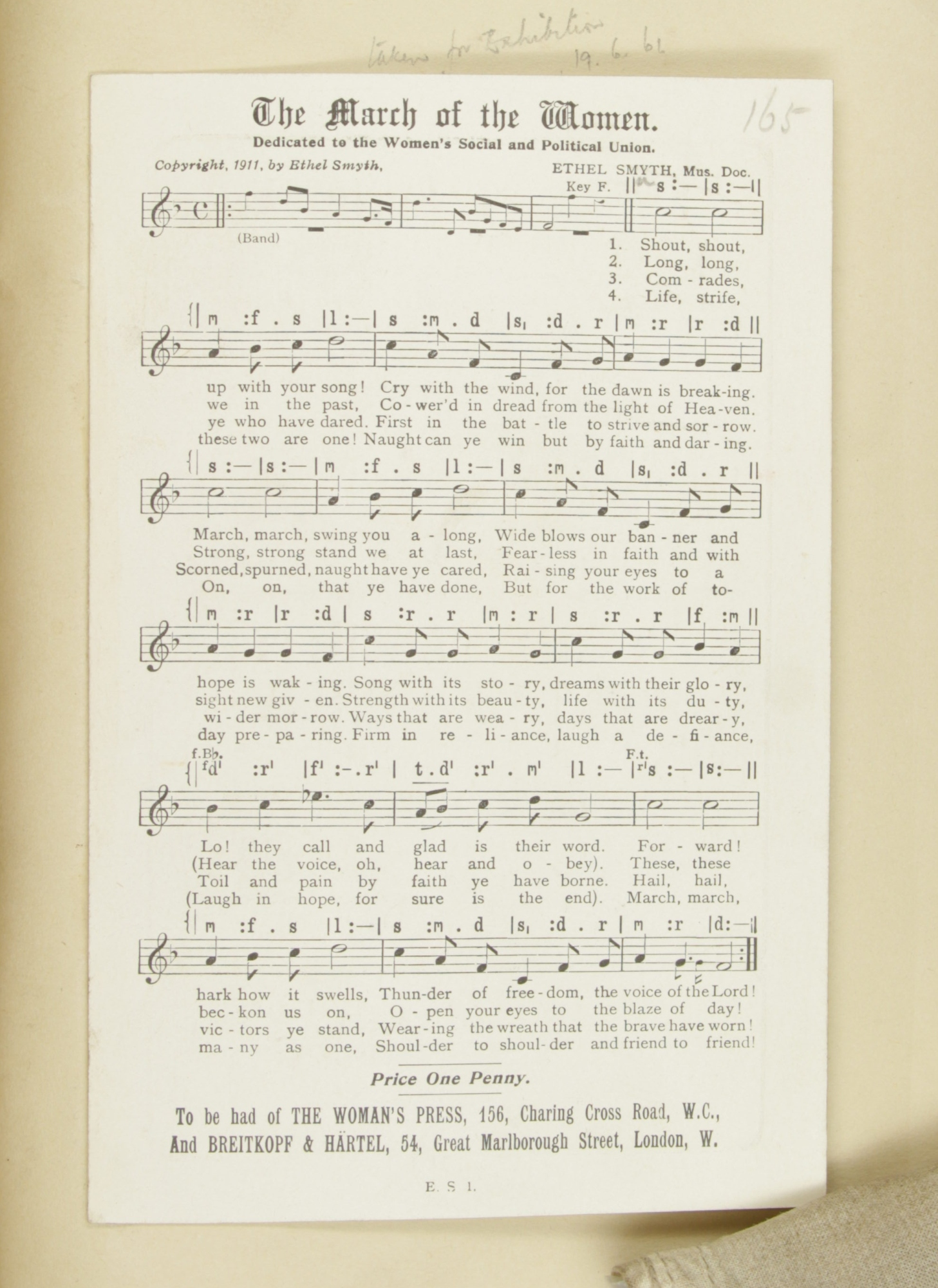 Published 1911. Ethel Smyth’s rousing March of the Women was composed in 1910 to words by Cicely Hamilton, with a tune adapted from a traditional Italian melody. Emmeline Pankhurst (1858–1928) introduced it as the official anthem of the Women’s Social and Political Union and it became associated with the suffrage movement more generally. This small pamphlet with the tune and words, easily portable and perfectly designed for distribution at rallies, was published by The Women’s Press in 1911, the same year it was sung on Pall Mall in celebration of the release from prison of a number of activists. The following year, the conductor Thomas Beecham (1879–1961) apparently heard it sung in Holloway Prison, where Smyth and Pankhurst were imprisoned.